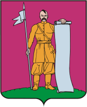 Staroscherbinovskoe (Krasnodar krai), coat of arms